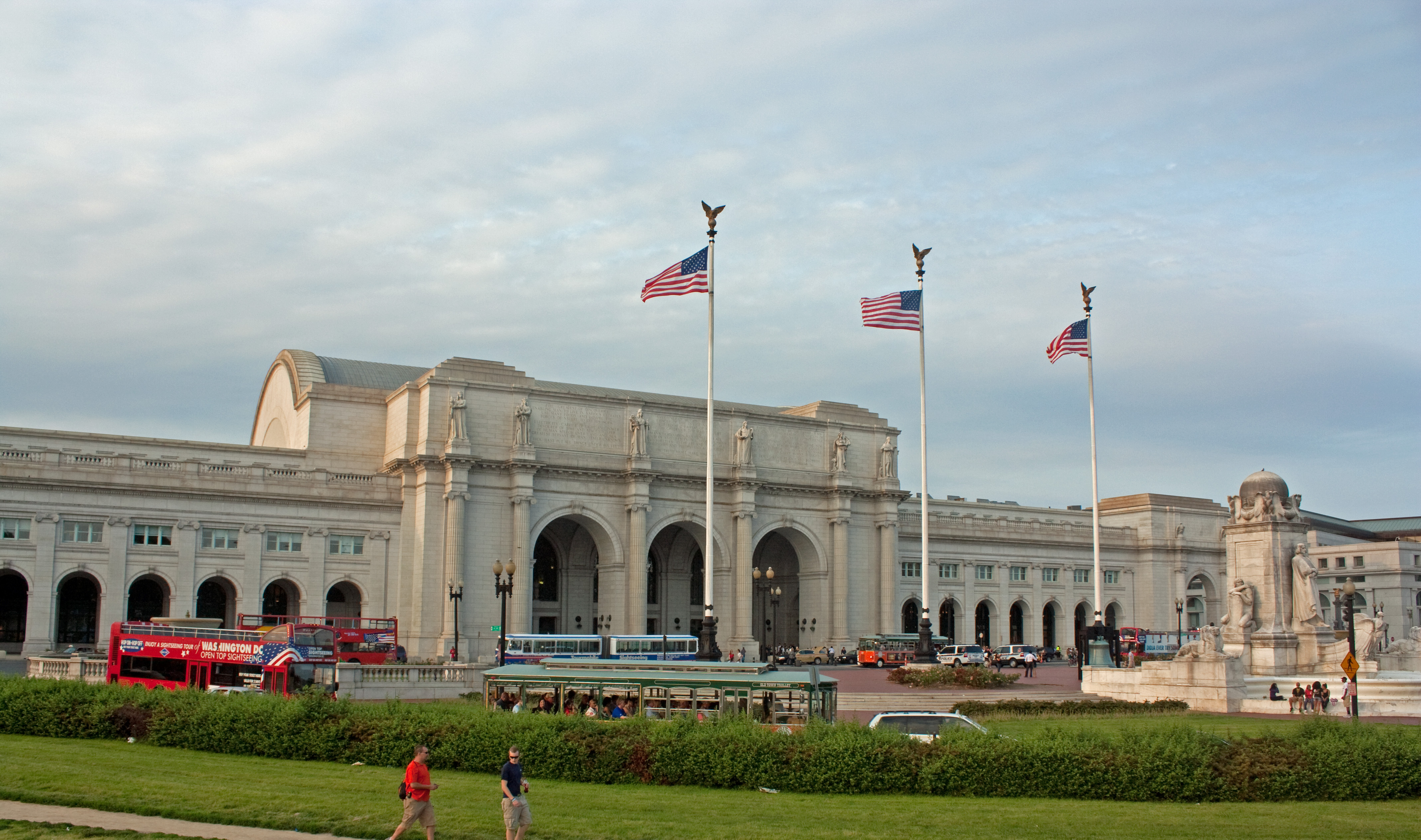 Union Station from near Columbus Circle in Washington, D.C.. The Christopher Columbus Memorial Fountain is in the right foreground. It serves as the headquarters of Amtrak.